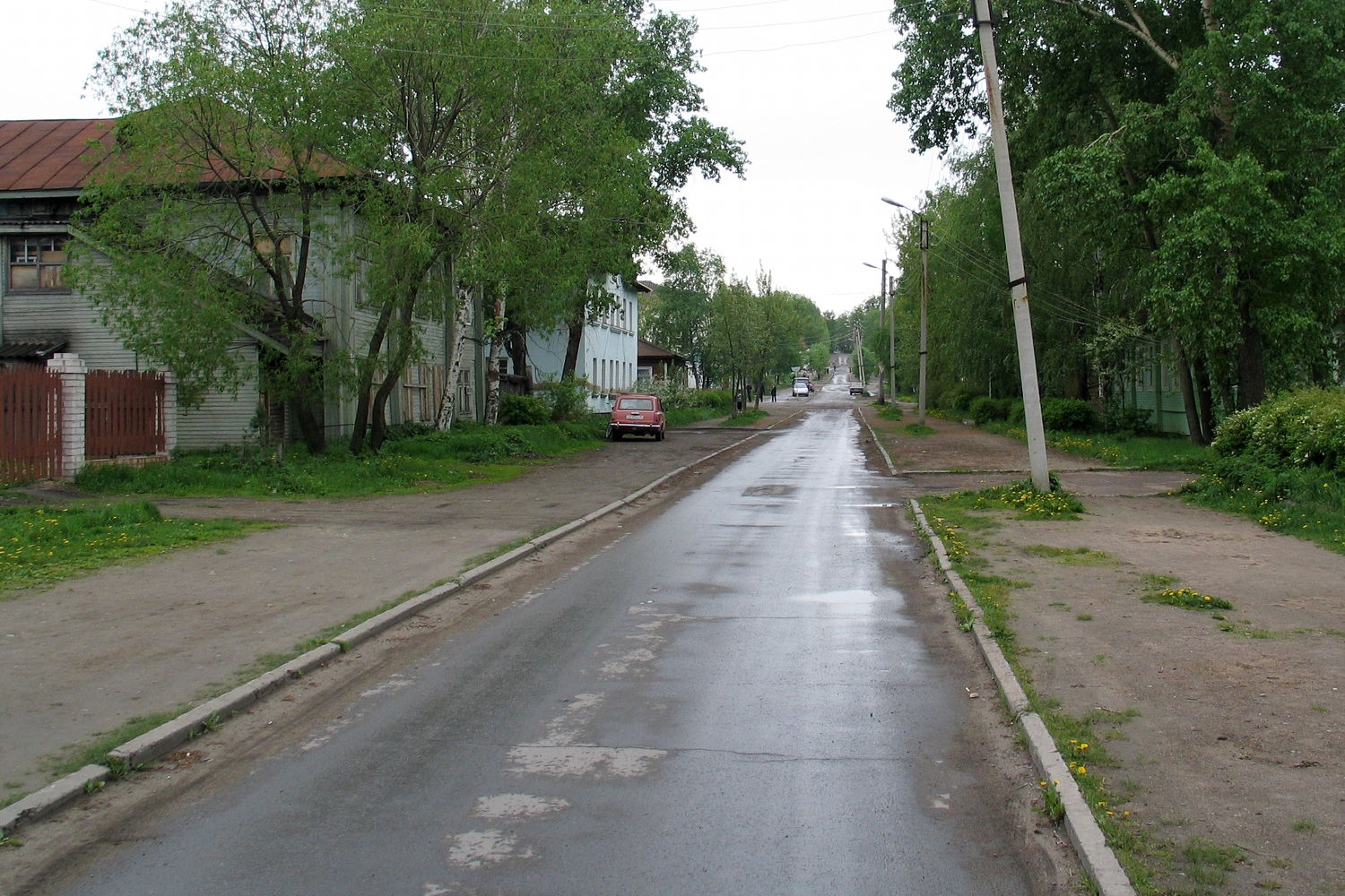 Town of Belozersk.